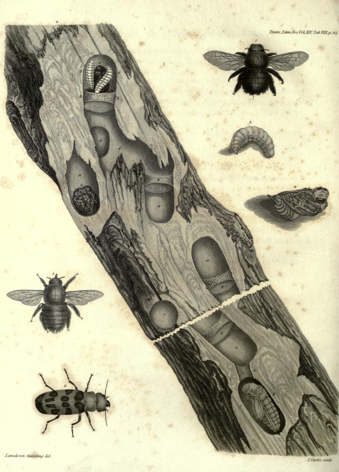 Cissites maculata and Xylocopa natural history